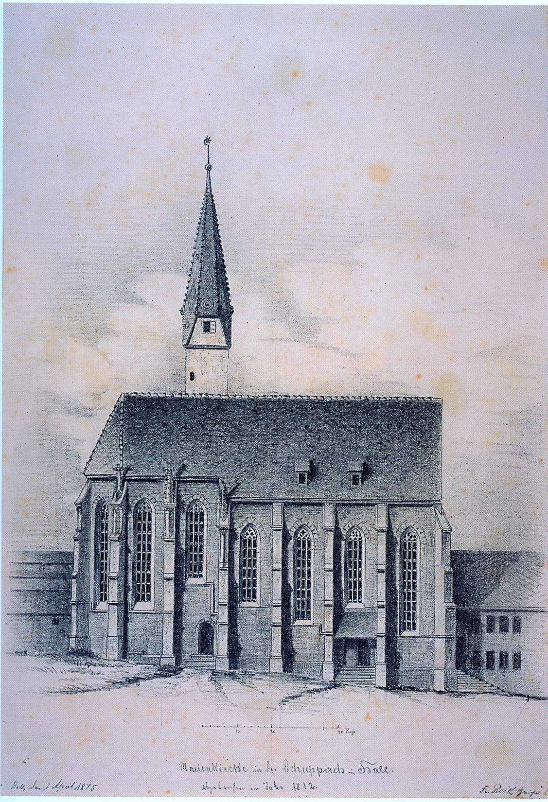 Schwäbisch Hall, St. Maria am Schuppach, Abbruch 1812.